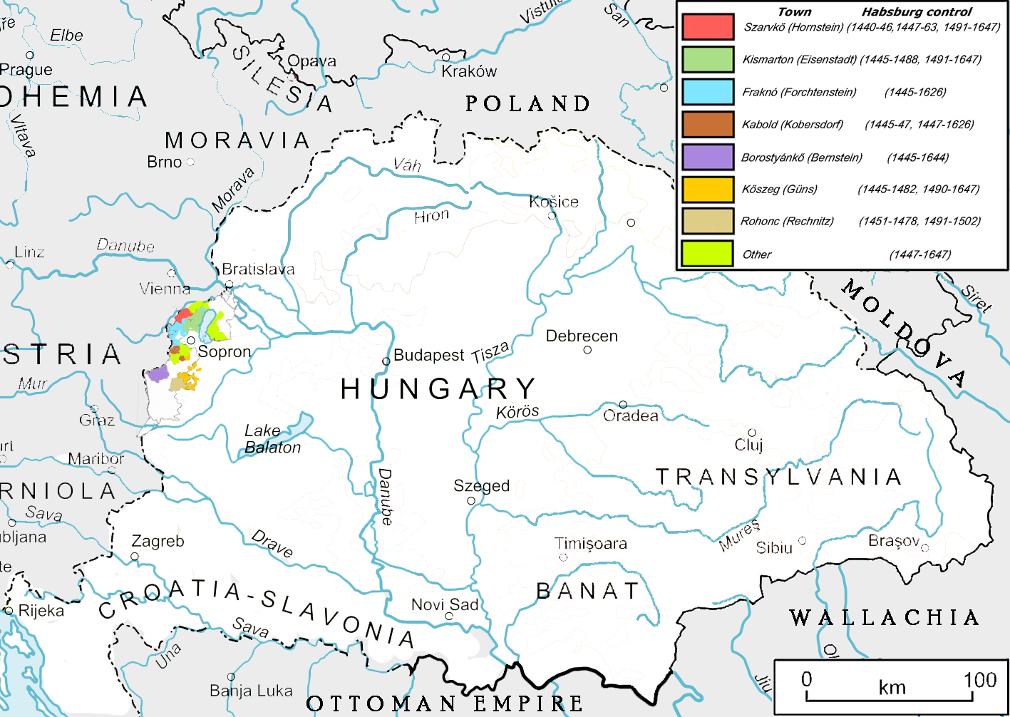 Habsburg mortgages in Hungary between 15th and 17th centuries